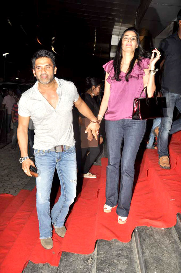 Suniel Shetty, Mana Shetty at the special screening of 'Bol Bachchan'